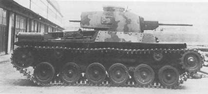 Side view of a Type 97 Shinhoto Chi-Ha tank of the Imperial Japanese Army